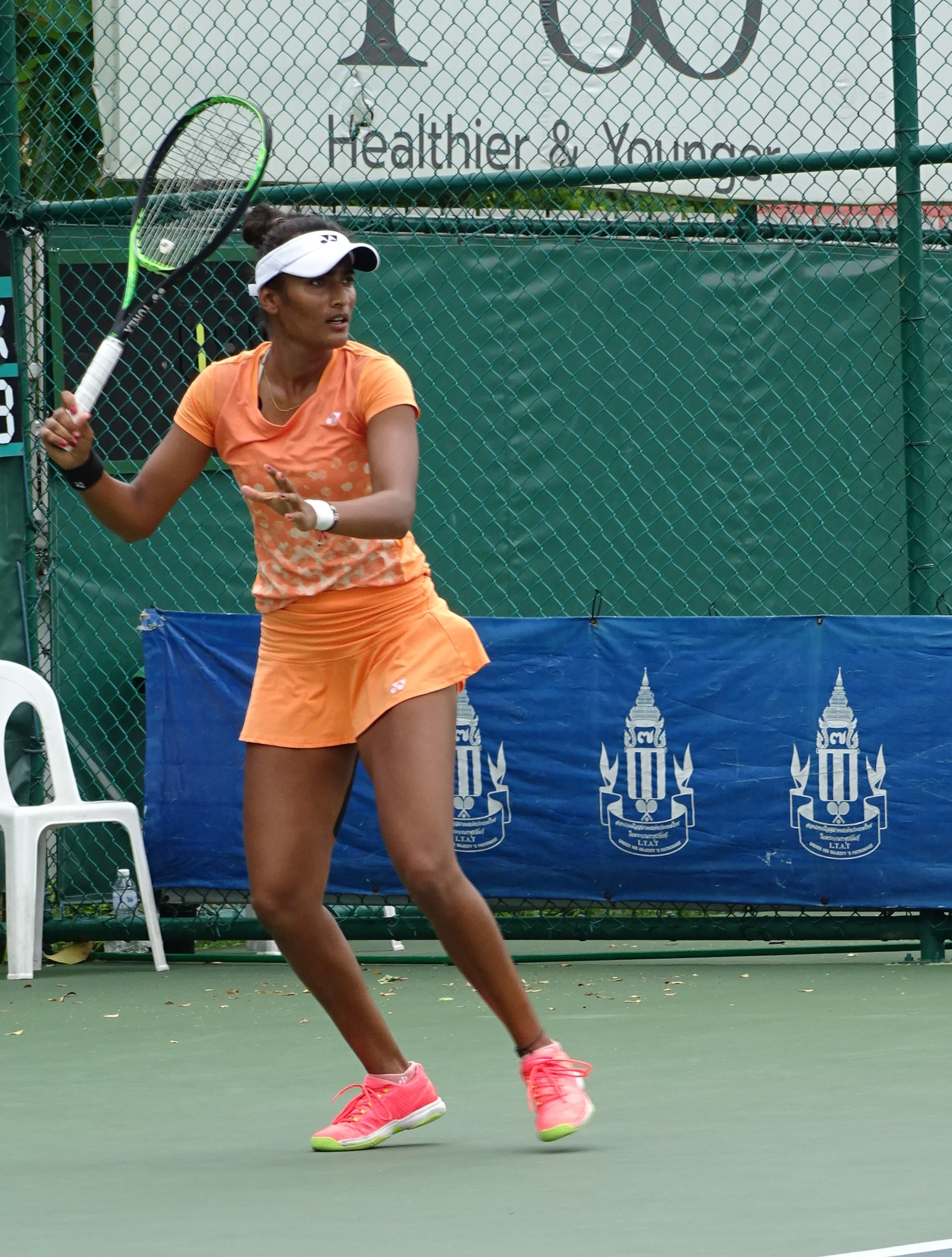 Rutuja Bhosale at the ITF Women's Circuit in Nonthaburi 2019